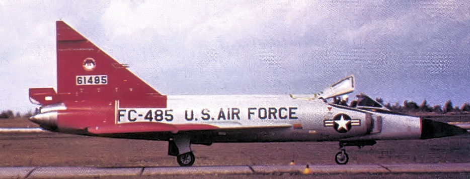 11th Fighter-Interceptor Squadron Convair F-102A-80-CO Delta Dagger 56-1485 343d Fighter Group, Duluth Airport, Minnesota, 1959